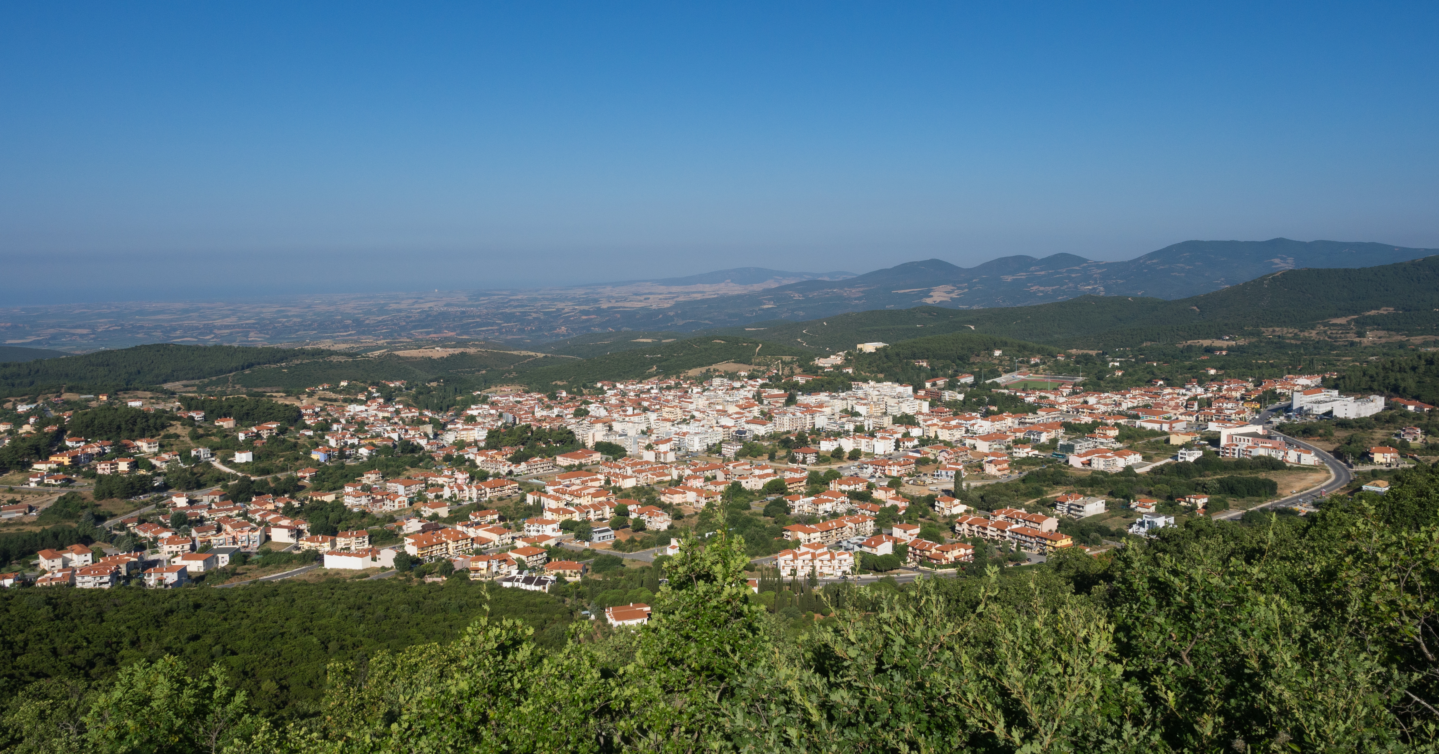 Polygyros seen from east